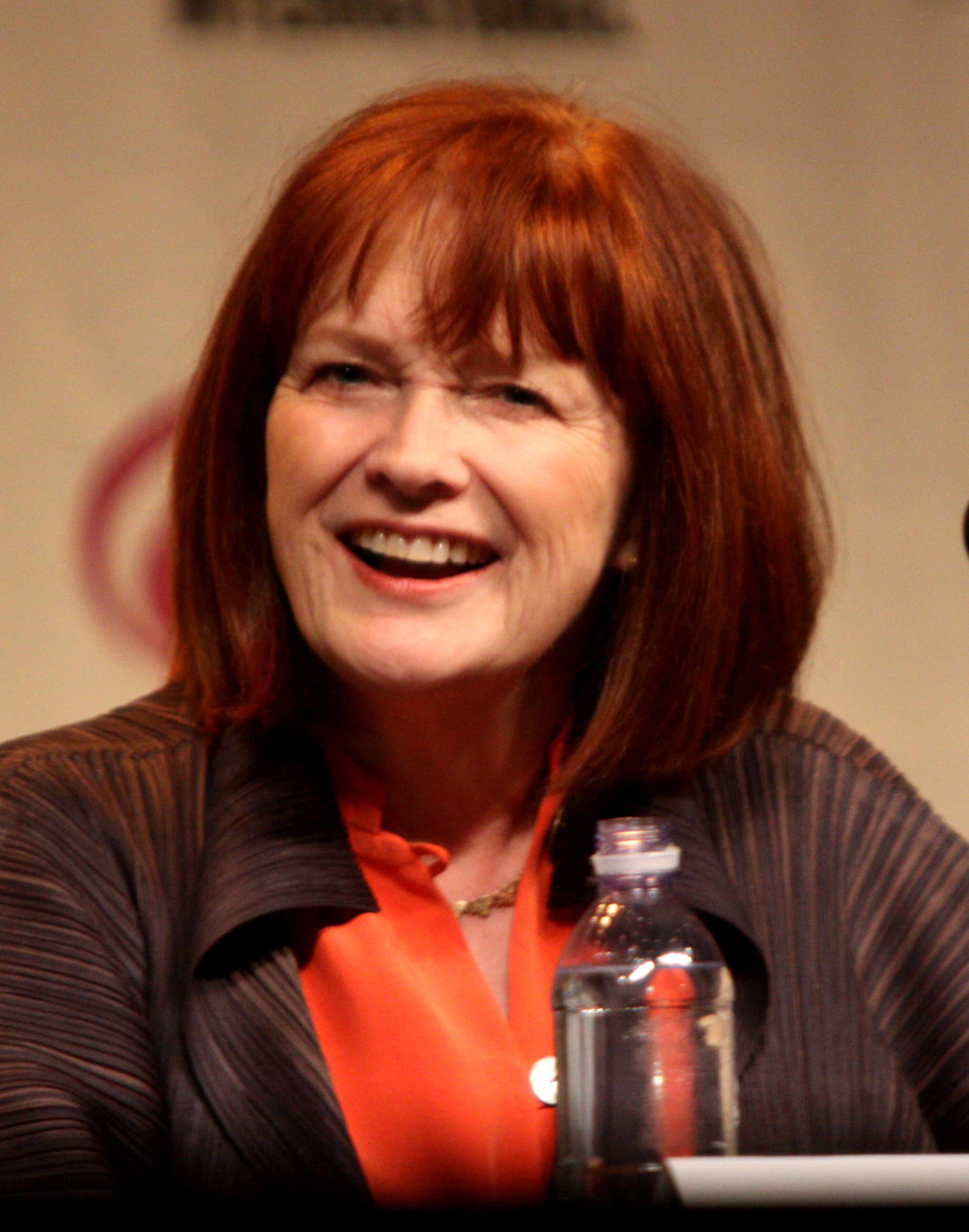 Blair Brown speaking at Wondercon 2012 in Anaheim, California on March 18, 2012.